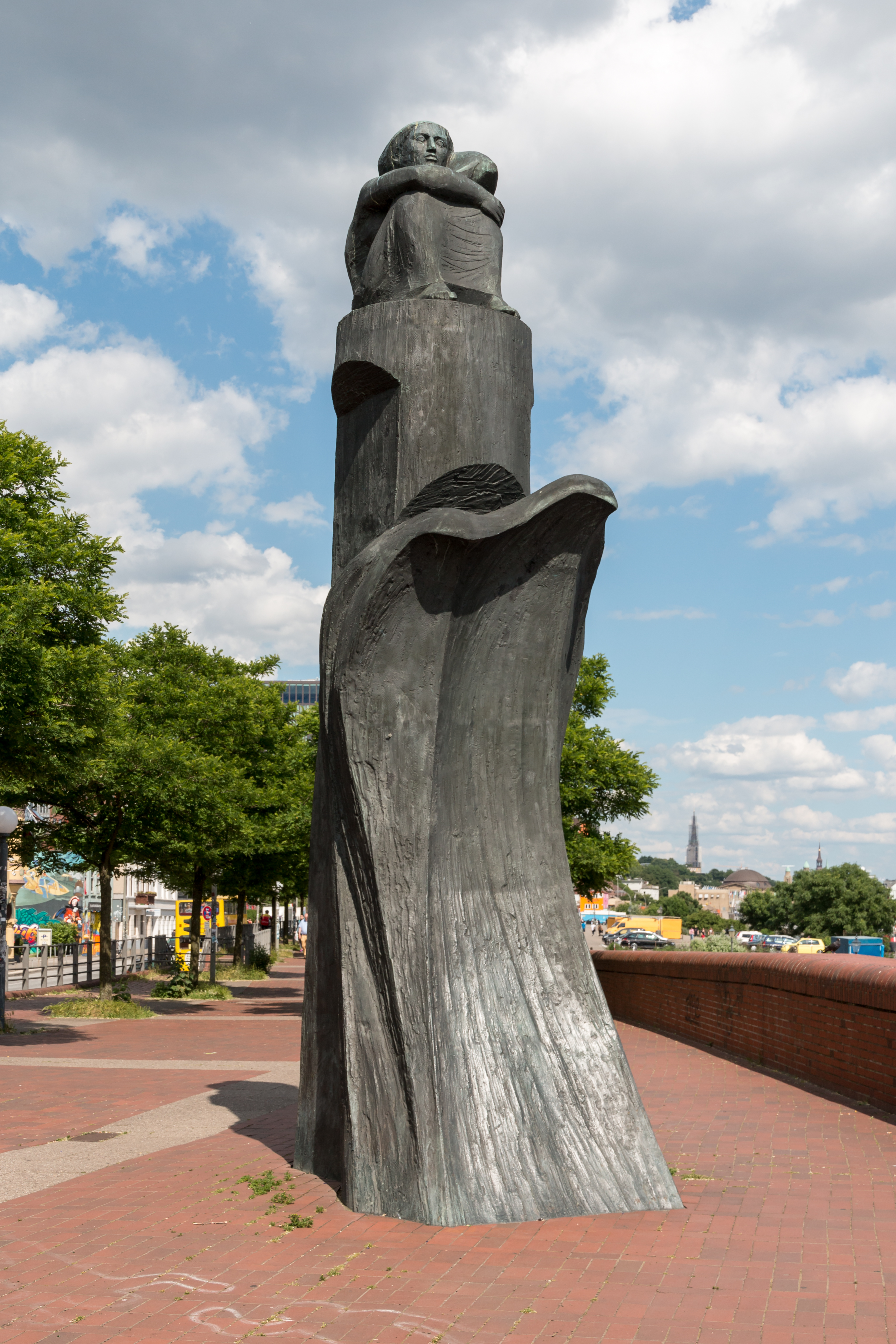 Sculpture “Madonna der Seefahrt” (Manfred Sihle-Wissel, 1985) at St. Pauli Fischmarkt, Hamburg, Germany Sculpture TitleMadonna der SeefahrtArtistManfred Sihle-WisselDate1985